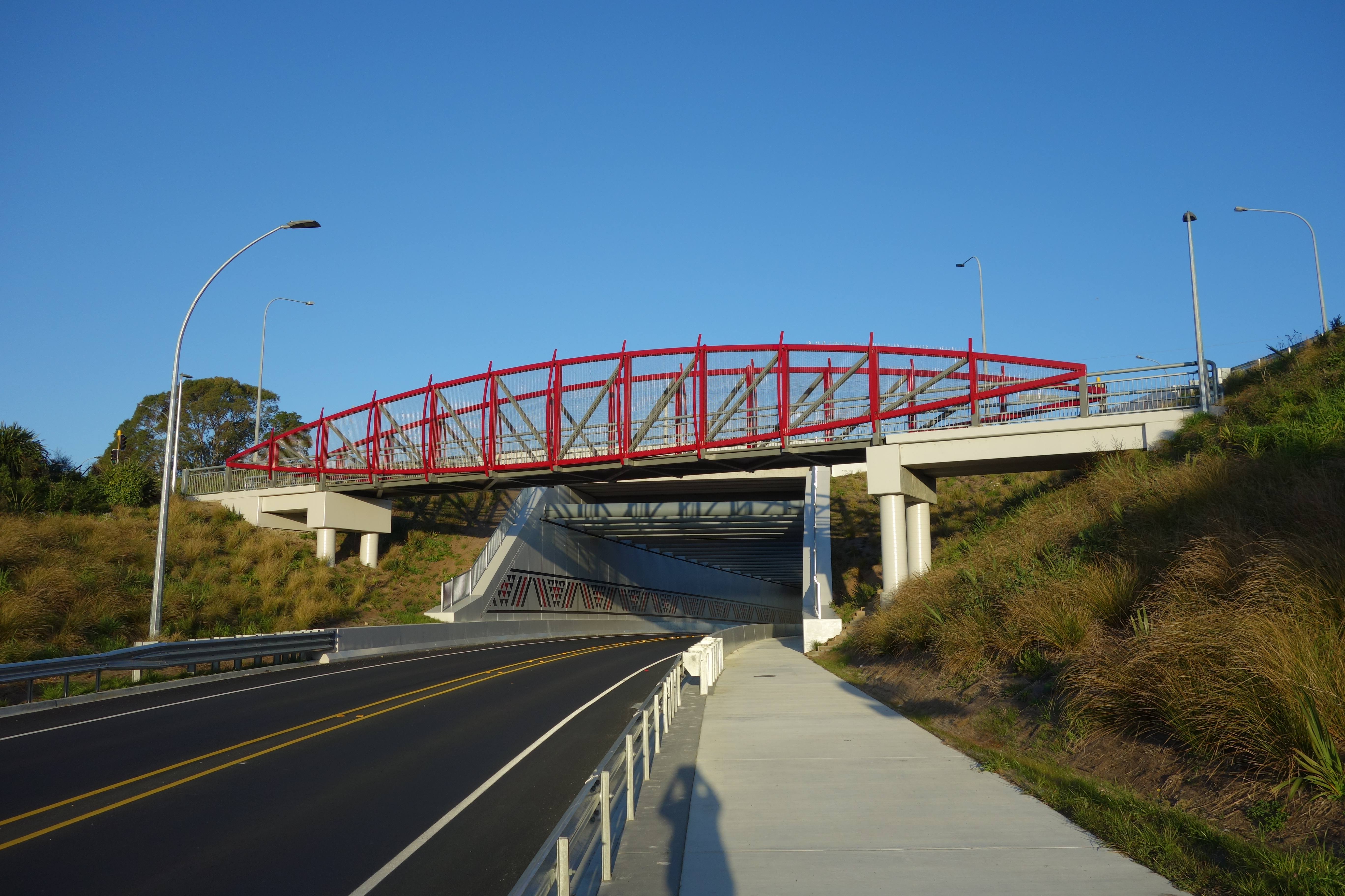 Shared pathway bridge adjacent to the Maungatapu roundabout built as part of the Welcome Bay Link project, connecting Maungatapu Road and Wickham Place.